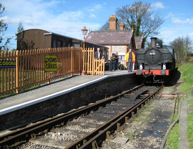 Chinnor station is the headquarters of the preserved Chinnor and Princes Risborough railway line, known as the Icknield Line LinkExternal link. Chinnor was originally an intermediate station on the branch line which ran from Princes Risborough to Watlington, and which opened in 1872. However falling traveller numbers made it an early pre-Beeching closure and the line closed to passenger traffic in 1957, although freight traffic to Chinnor Cement Works continued until 1989. In the 1970s the station and platform at Chinnor were demolished by British Railways, so the railway preservation company have had to completely rebuild them. Although the line currently stops short of entering Princes Risborough the railway are hopeful of securing access soon. Here pannier tank engine 57xx 0-6-0PT 9682, built at Swindon in 1949, simmers gently on an sunny early spring afternoon, awaiting its next call of duty. Despite the classic Great Western Railway scene this engine post-dated the Nationalization of the railways in 1948 so only ever wore British Railways livery.